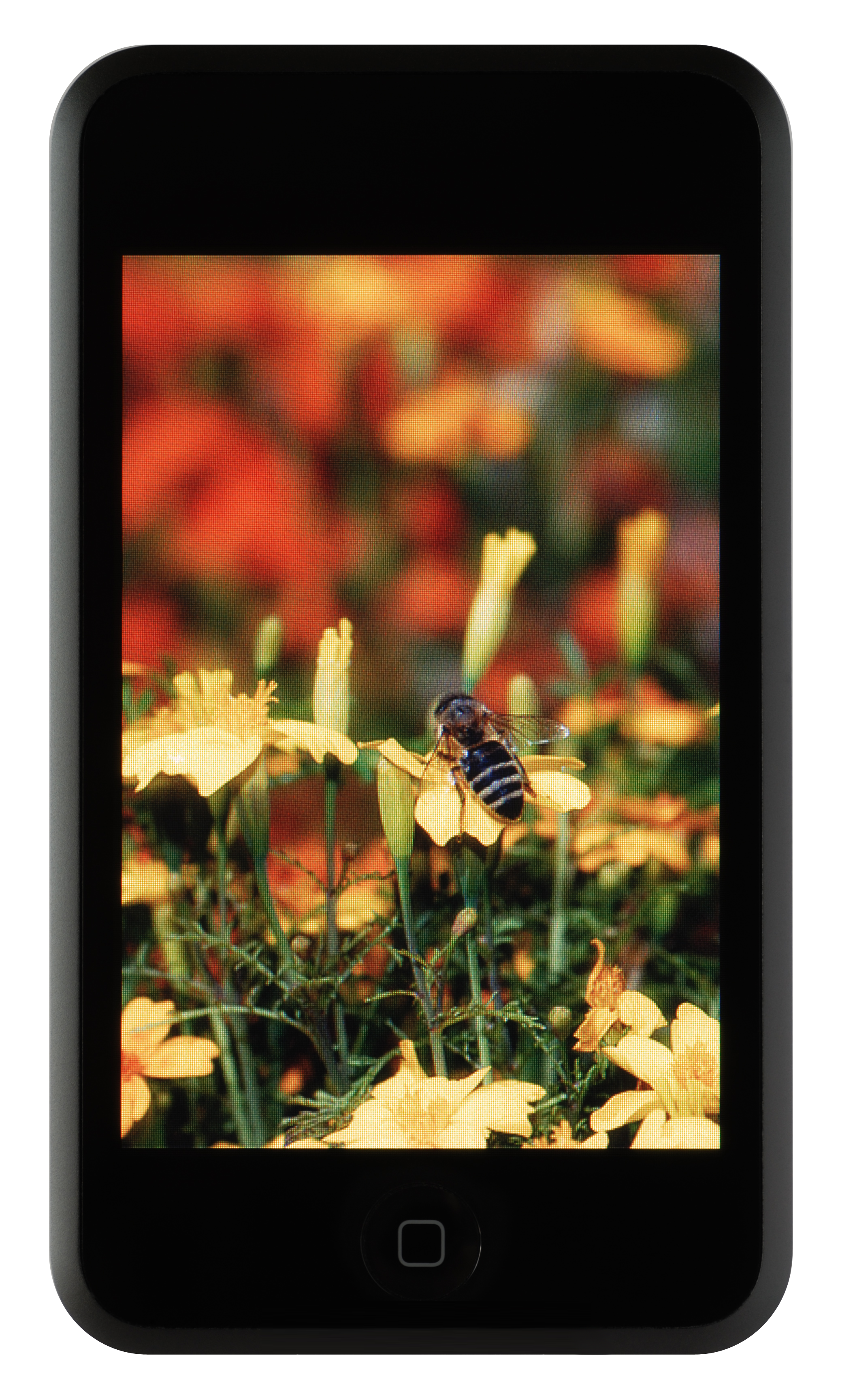 This image shows a iPod Touch. Due to the copyright situation it is not allowed to show the original user interface here. Therefore a part of this image has been displayed on the device while taking the photo.